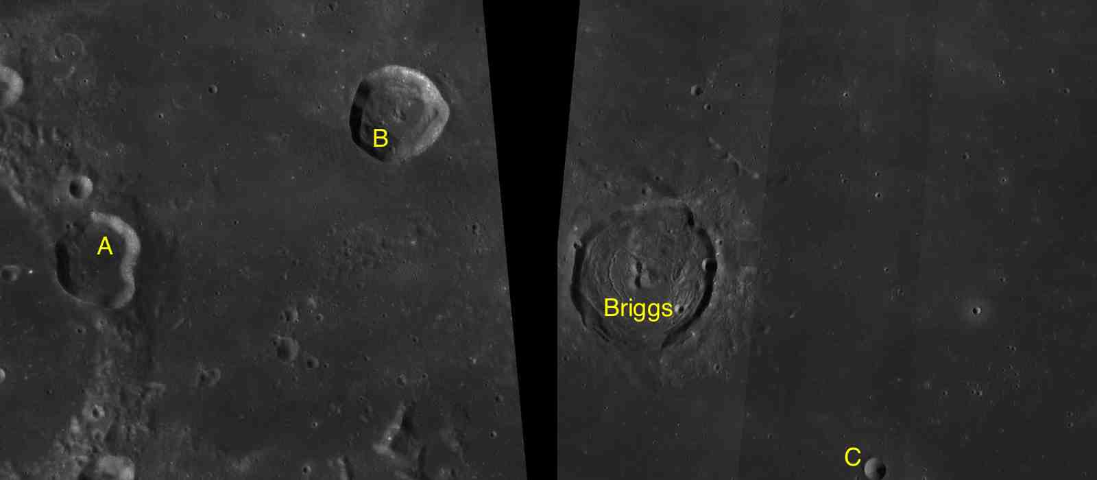 Parts of the charts LAC-37, LAC-38 used for the presentation